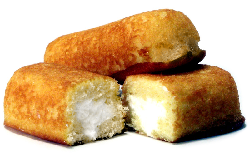 Twinkies (Hostess Twinkies is a trademark of Interstate Bakeries Corporation).